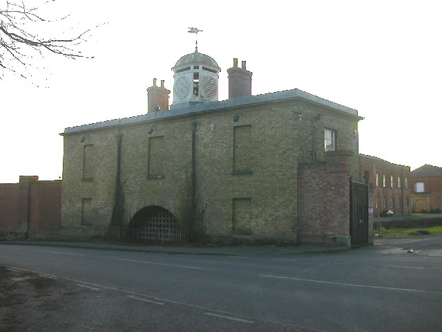 Weedon Bec. When this Ordnance Depot was connected to the nearby Grand Union Canal the entrance was through the bridge beneath this building with the opening of the portcullis.A rail link was built later.